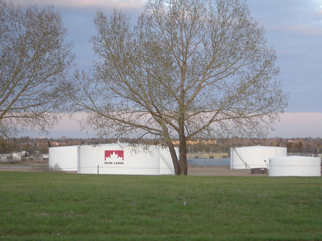 Storage Tanks Petro Can or Petro Canada West Industrial, Saskatoon